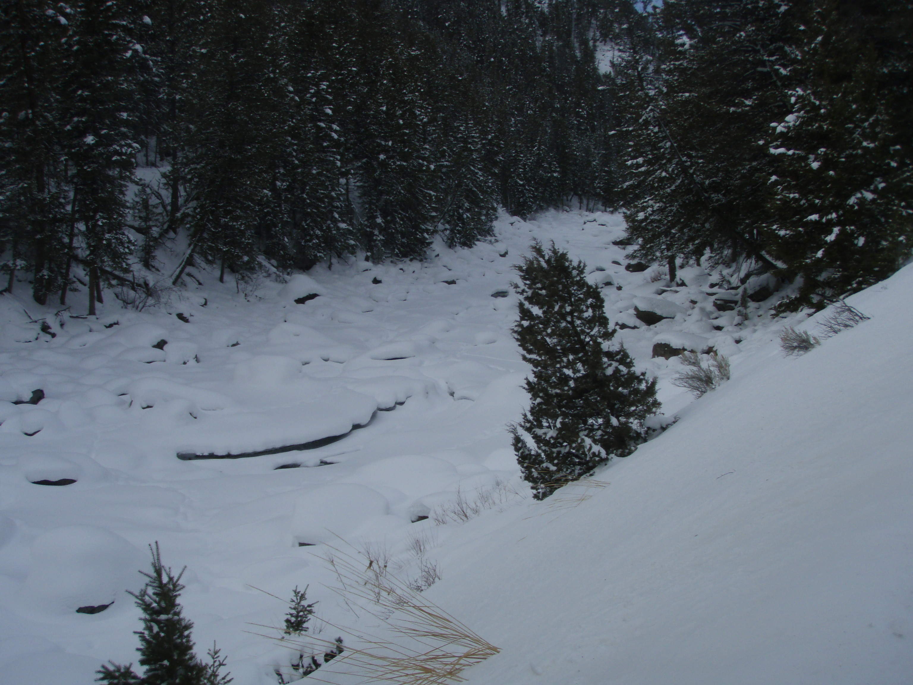 Lamar River just east of Slough Creek, Yellowstone National Park, Wyoming, January 2009